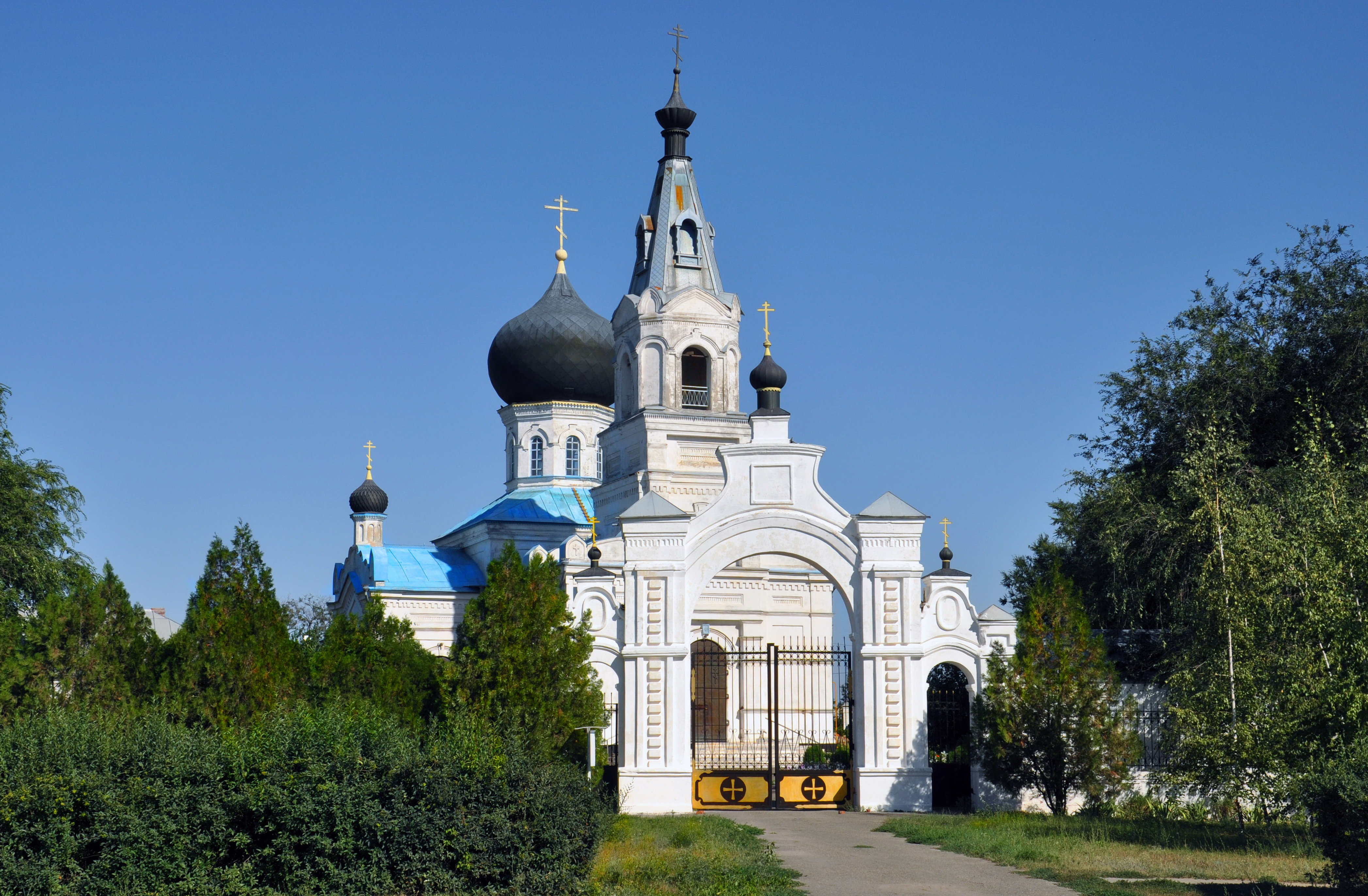 Ascension Church Rostov region, Semikarakorsk district, the village of Susat, Russia. Year of construction: 1906 and 1914.